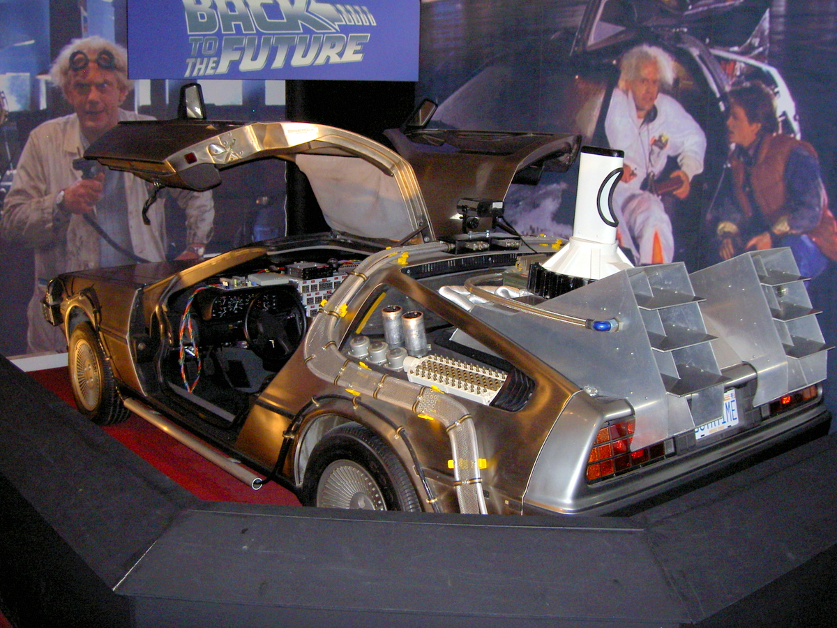 DeLorean time machine at the Historic Auto Attractions museum in Roscoe, Illinois.